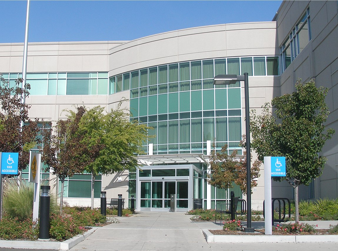 The old headquarters of Agilent Technologies at 395 Page Mill Road in Palo Alto, California. This site was formerly home to the Redwood Building, which was the first building constructed by Hewlett-Packard specifically for its use. Previous homes had included a garage and a rented building. In May 2006, Agilent sold this building in order to consolidate its facilities into a single campus in Santa Clara. The final headquarters move took place in August 2006.